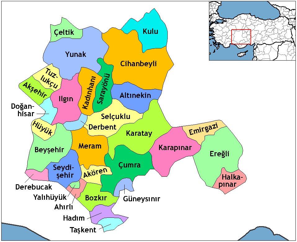 Map of the districts in the Province of Konya — in the Central Anatolia Region of Asian Turkey.